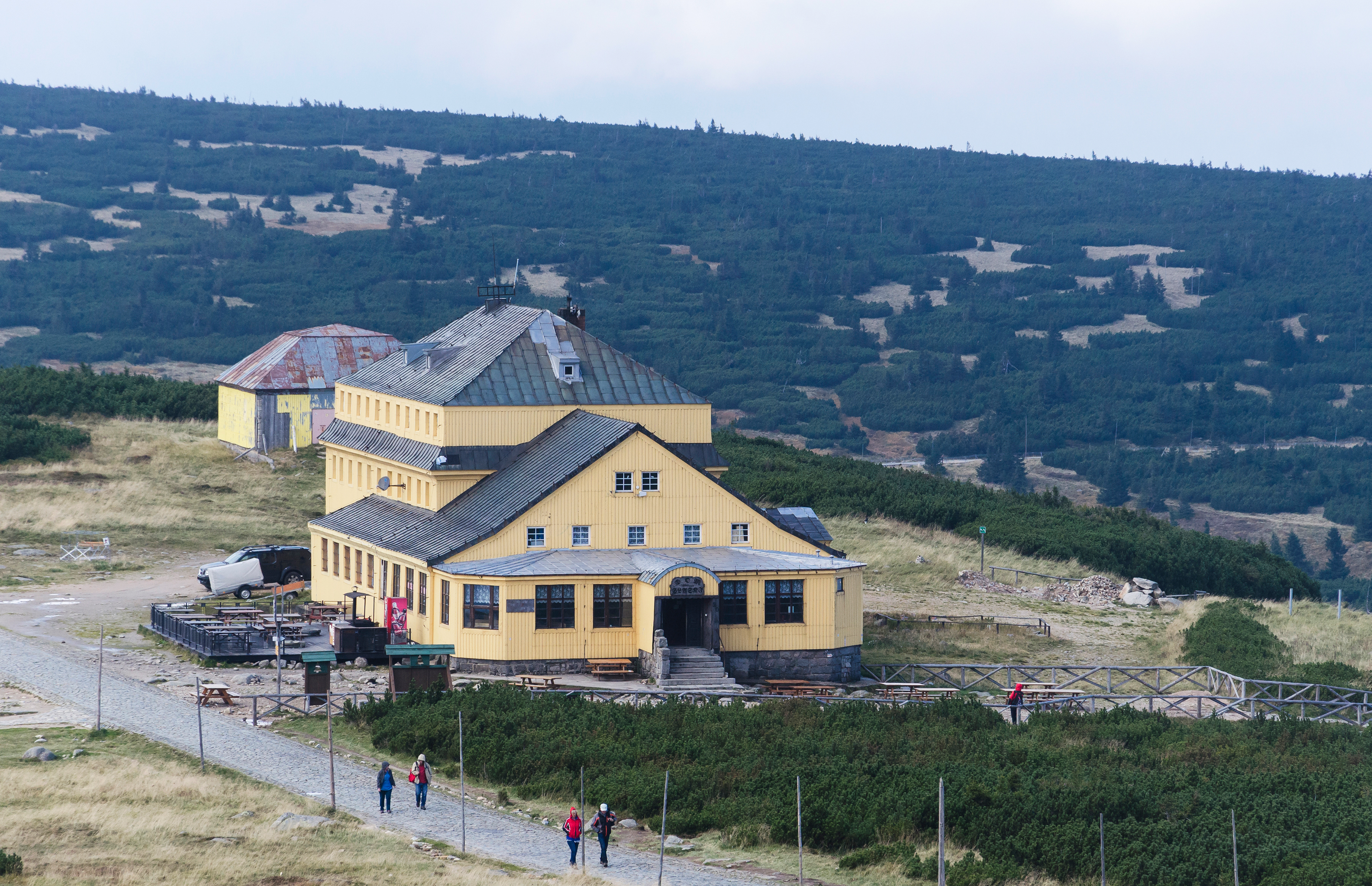 Shelter "Dom Śląski"